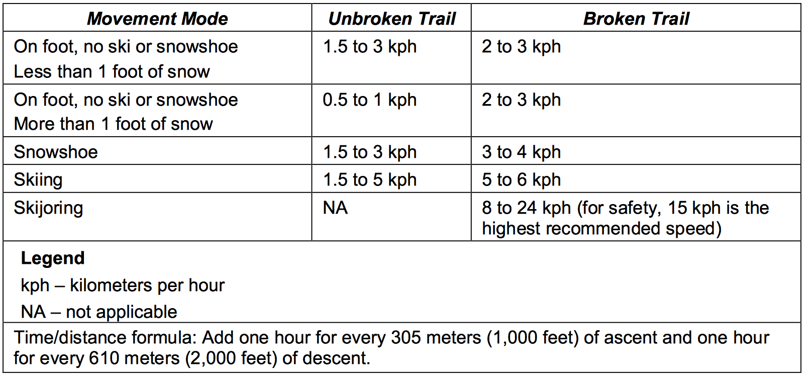 If dismounted troops deploy into column (wedge) formation outside the file formation, the unit will move more slowly. With no one breaking the trail, all personnel must now move through undisturbed snow. In temperate regions, column formation is ideal since it maximizes fields of fire and supports the exercise of mission command. However, when operating in a snow-covered environment, the ideal formation is the file formation. Leaders only deploy into column formation if enemy contact is imminent because the rate of movement is so constrained. Table 4-1 shows dismounted movement rates of march in the mountains. This is just a rough guide. As slope angle increases, the amount of time is likely to exponentially increase as well.